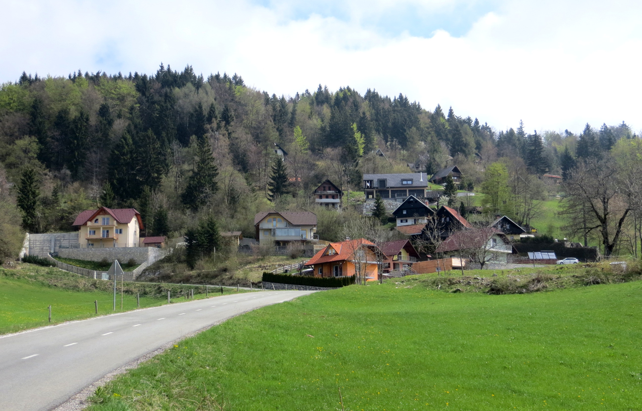 The hamlet of Pri Gozdu in Ambrož pod Krvavcem, Municipality of Cerklje na Gorenjskem, Slovenia